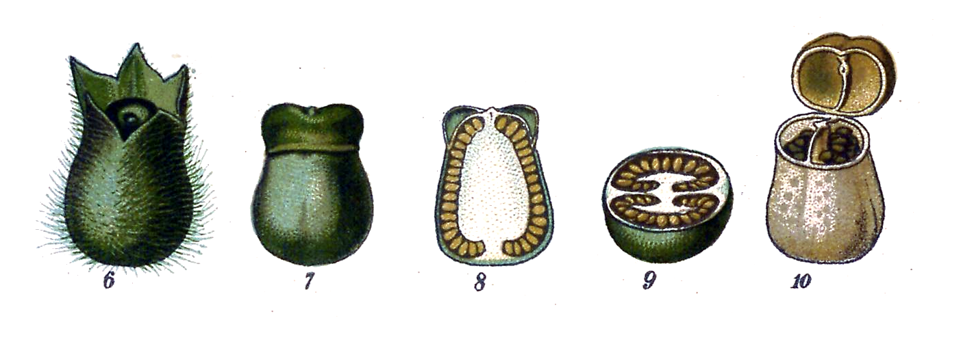 Immature and mature fruit of Hyoscyamus niger